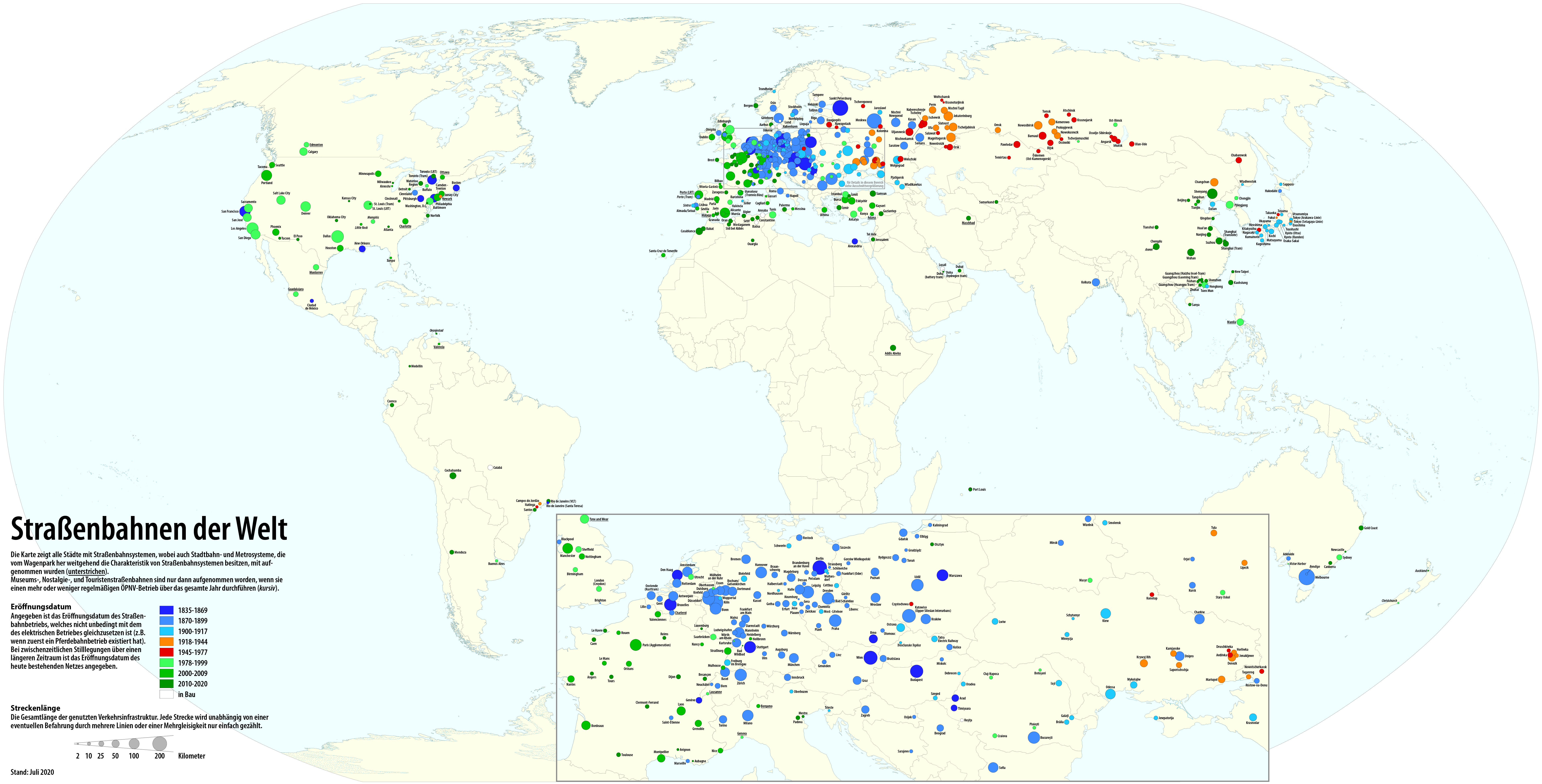 Map of the [:en:List of tram and light rail transit systems